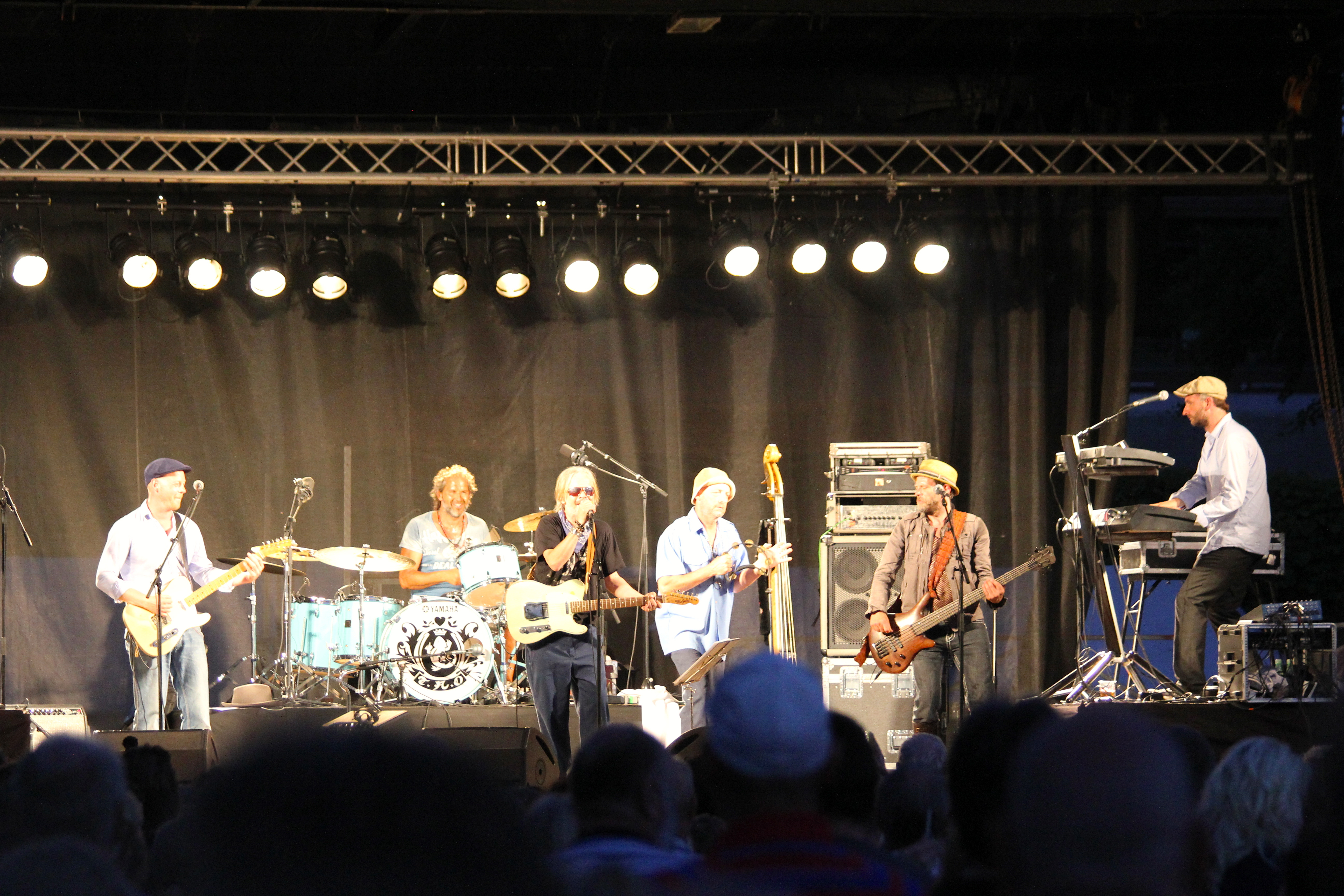 The Danish musical group 'Danseorkestret' at King's Garden (Odense), 26 July 2012.